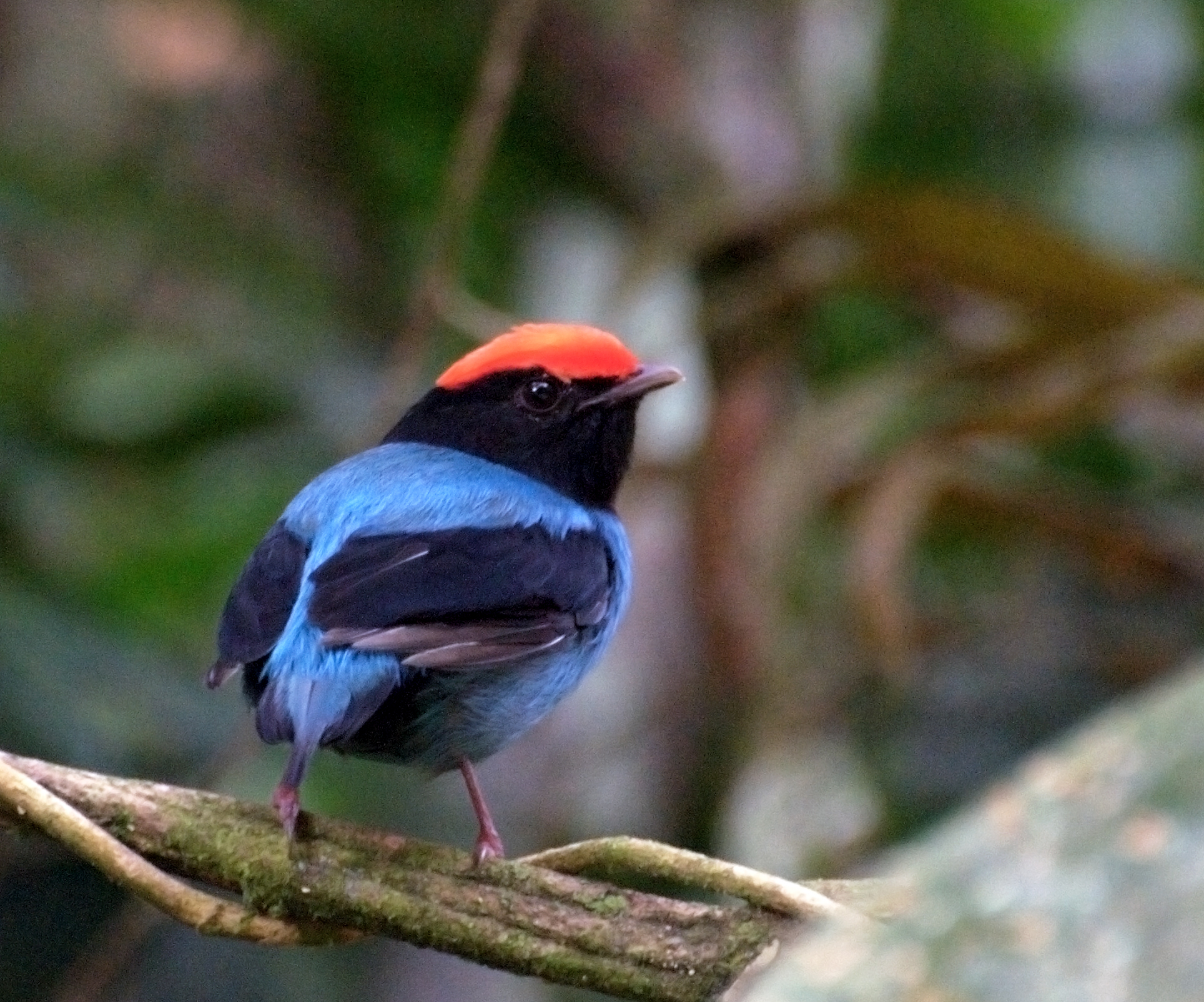 A Blue Manakin in Vale do Ribeira, Registro, São Paulo, Brazil.